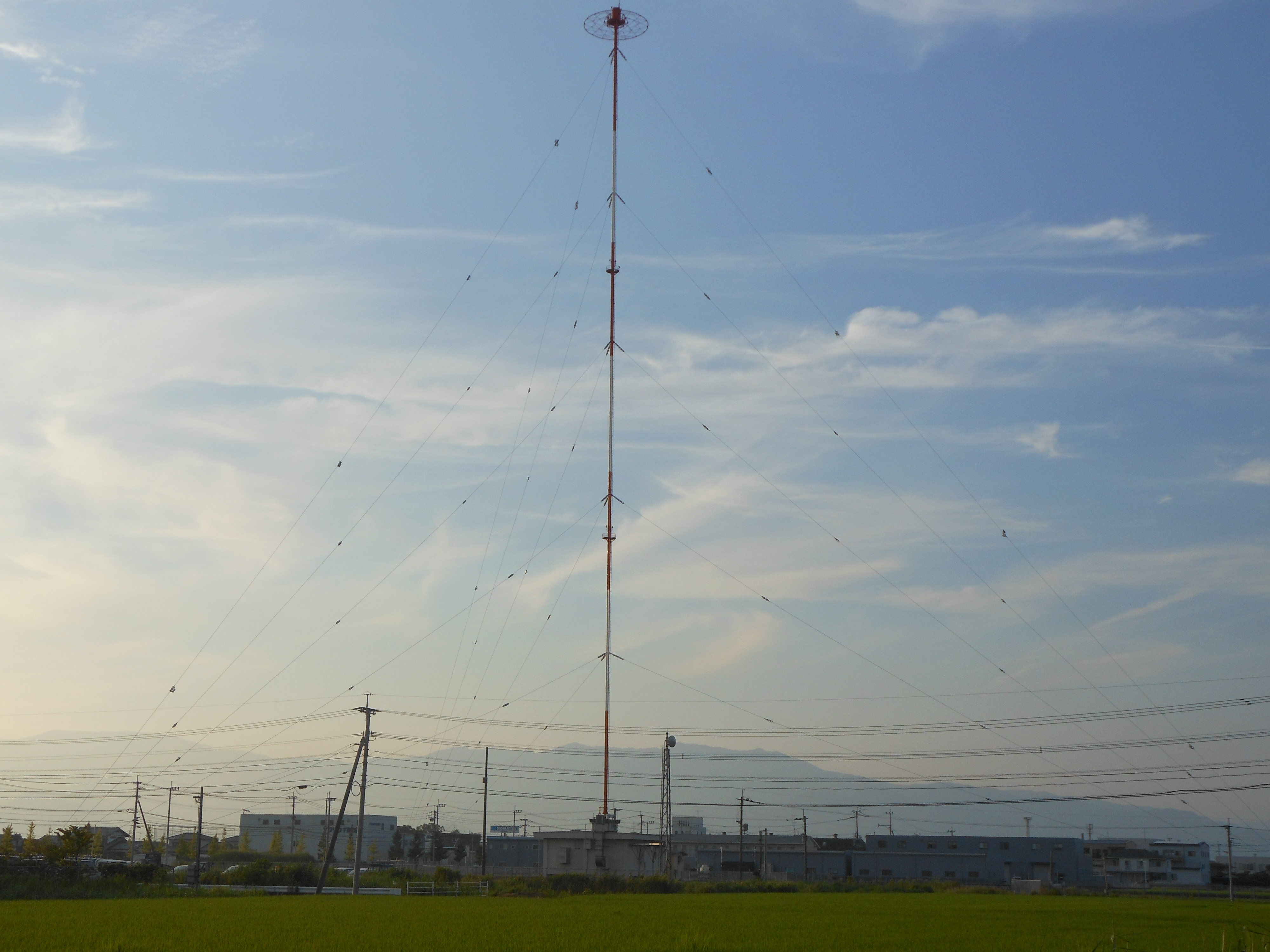 View of Saga Nabeshima radio station. NHK Radio 1:JOSP 963kHz 1kW NBC Radio Saga:JOUO 1458kHz 1kW